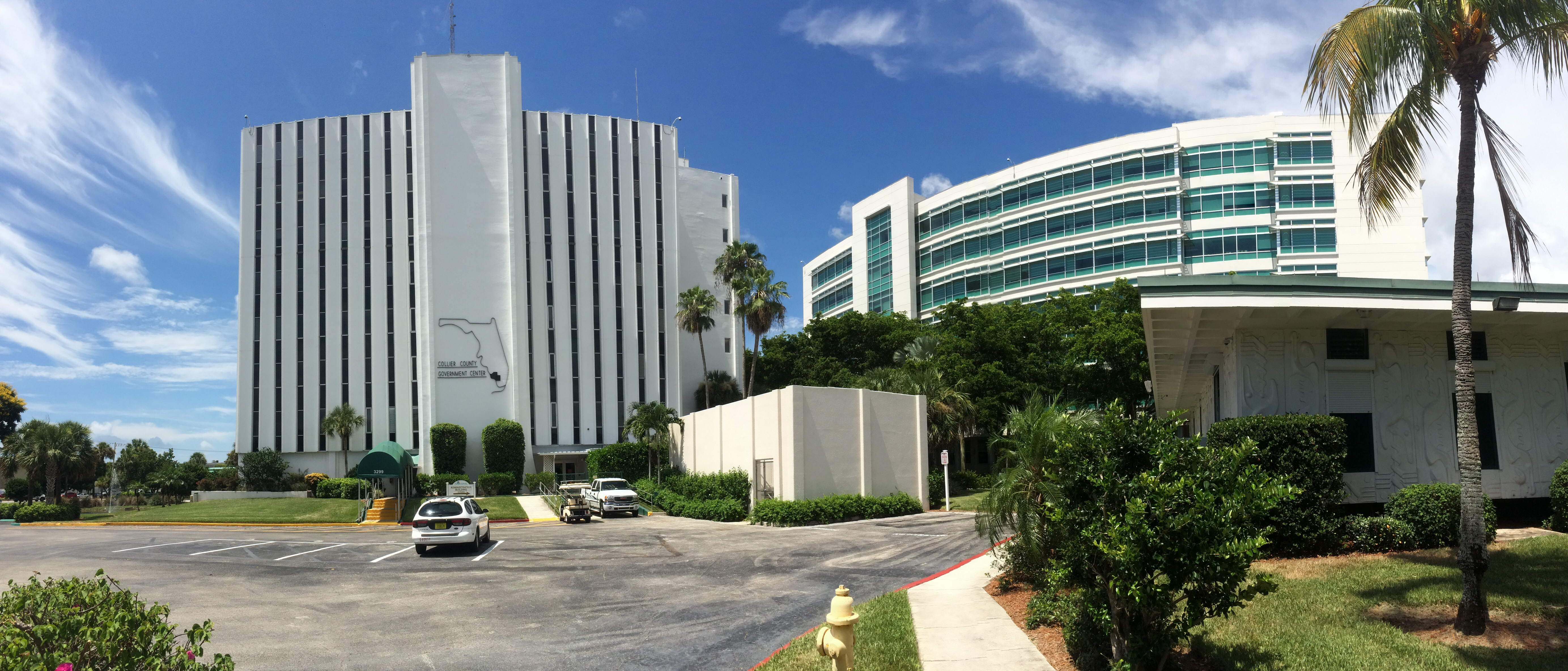 To the left, the main administration building for the government of Collier County, Florida, United States. To the right of that is the rear of the county courthouse. Specifically, the courthouse annex, a large, more modern addition to the original courthouse building that seems to house most of the court's administrative offices. A large atrium connects the annex with the main building. The small building to the far right is the county government's human resources department. Not shown are numerous other buildings on the opposite side of the campus, such as the Sheriff's Office, the county jail, the tax collector, the supervisor of elections, and a small cafeteria that services the government center's campus.